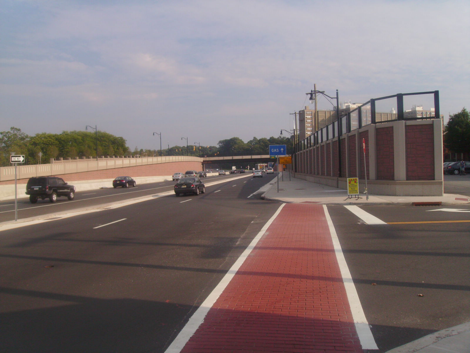 Route 18 southbound in New Brunswick, New Jersey at the intersection with Tabernacle Way.